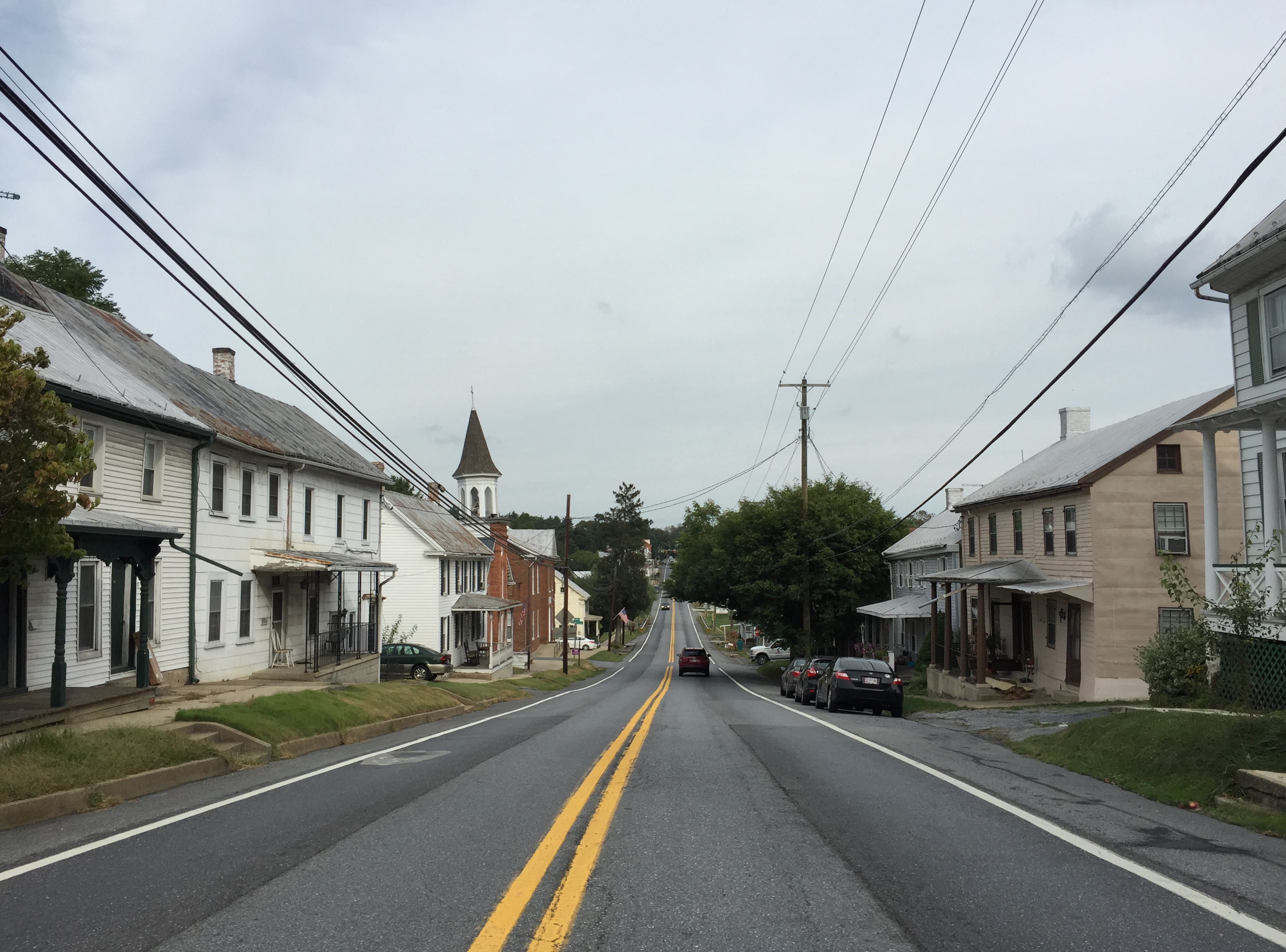 View east along Maryland State Route 26 (Liberty Road) between Maryland State Route 550 (Woodsboro Road) and Trammels Alley in Libertytown, Frederick County, Maryland